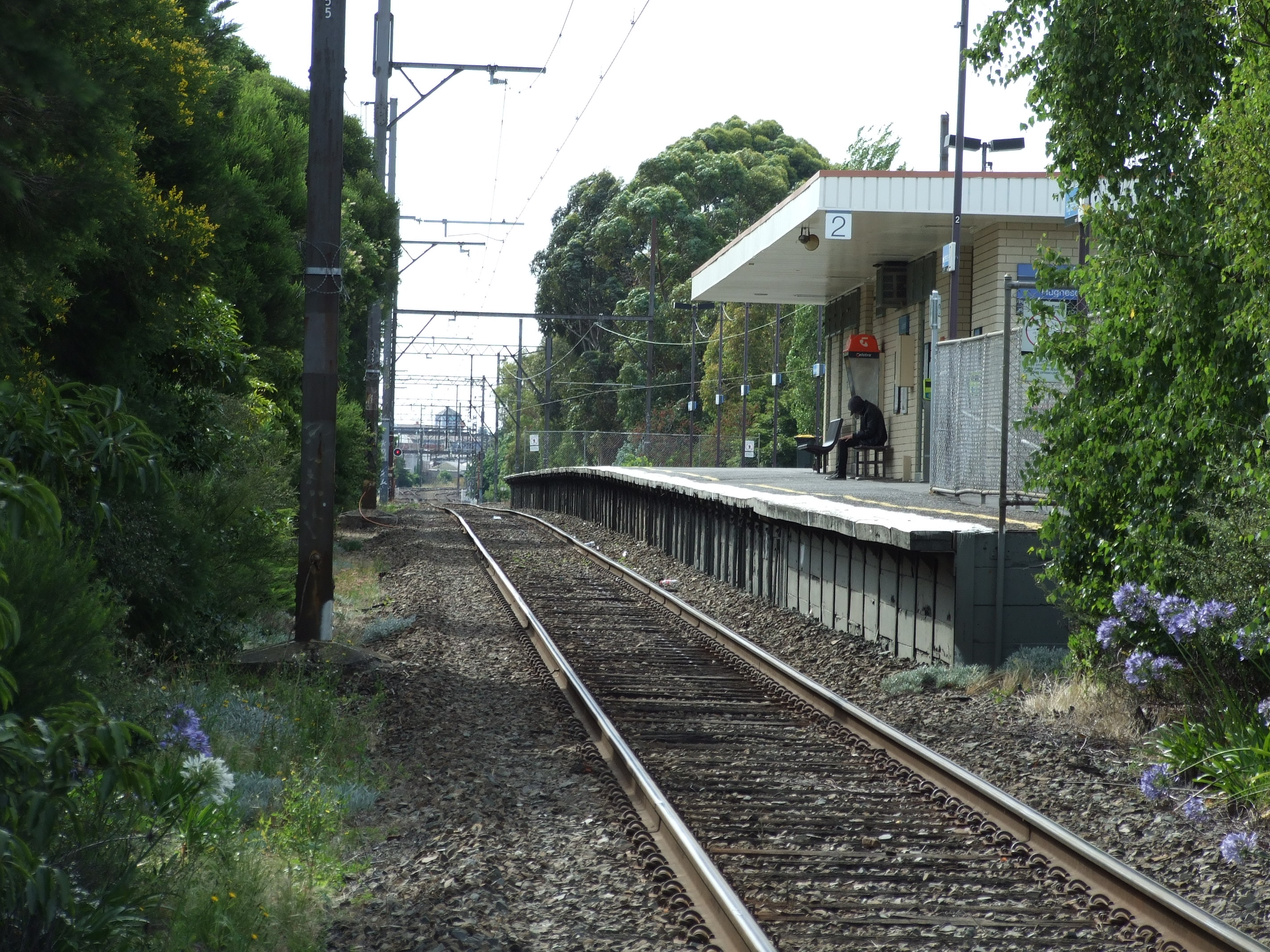 Hughesdale railway station, Victoria, Australia